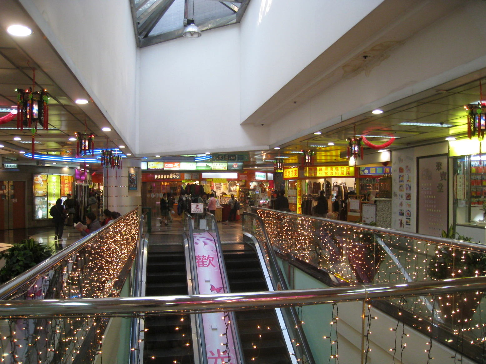 Sceneway Plaza Level 3 Void 滙景廣場